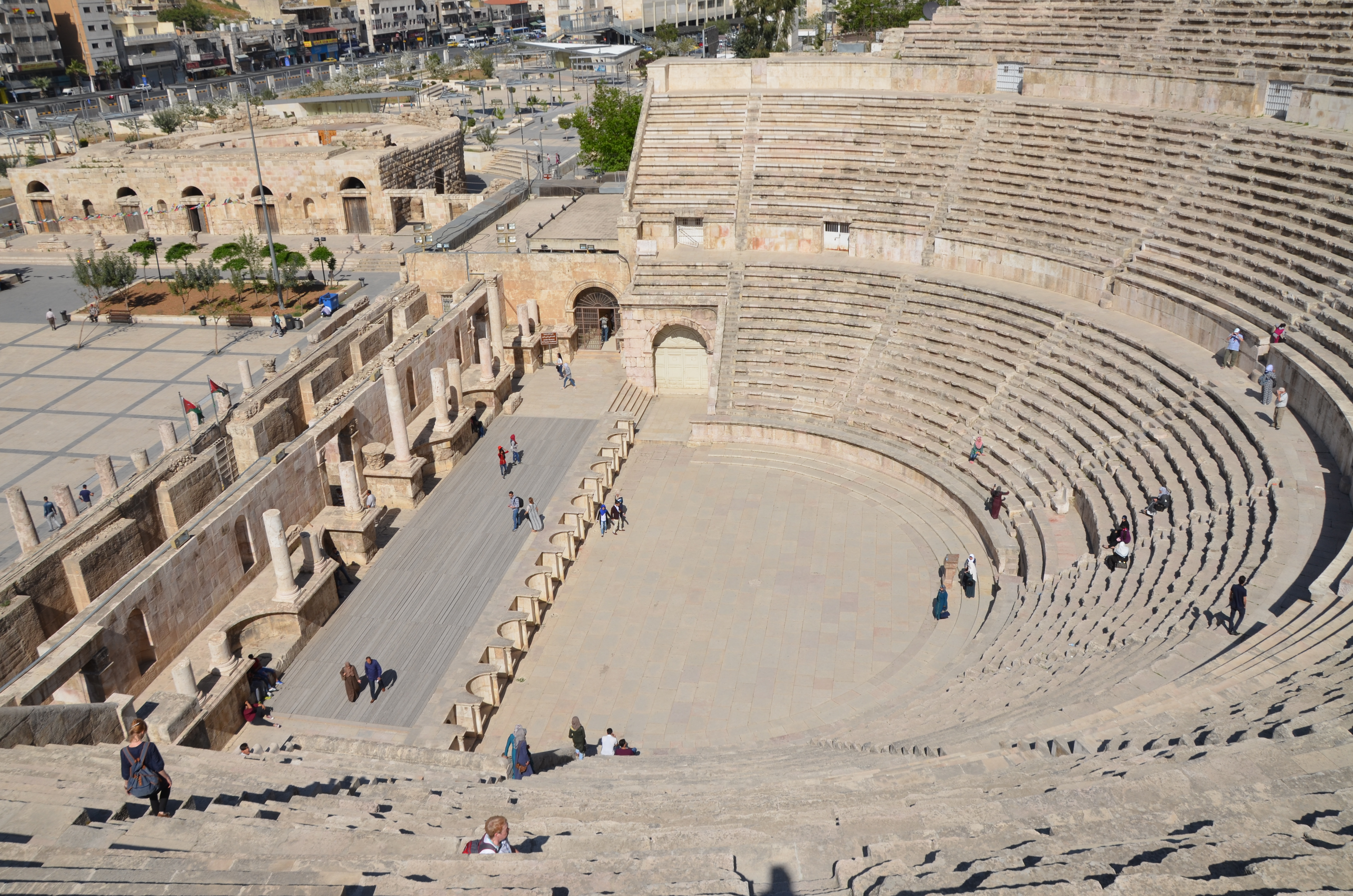 The Roman Theatre of Philadeliphia built during the reign of Antonius Pius, Amman, Jordan